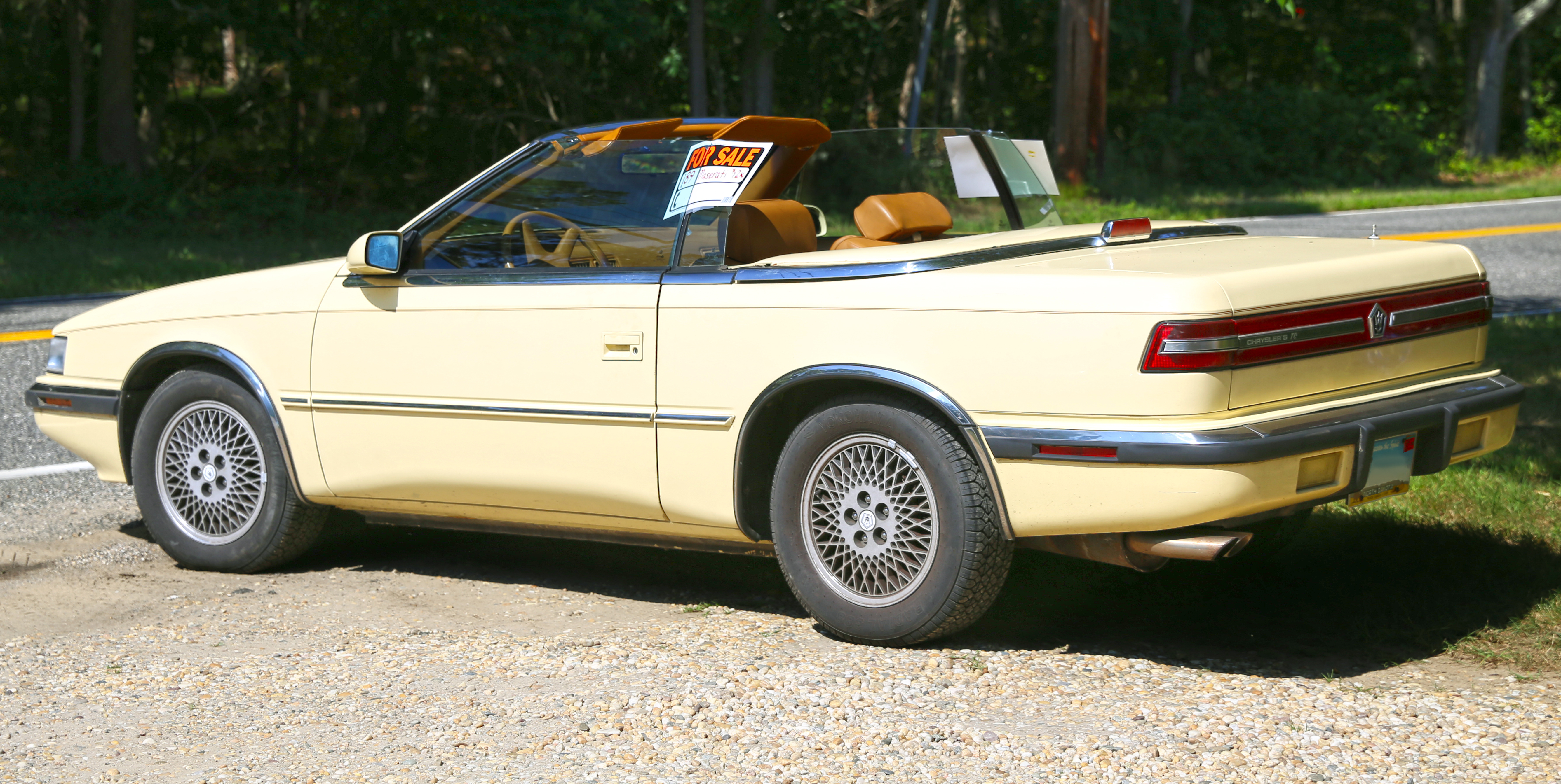 1989 Chrysler TC by Maserati in the Hamptons (Long Island).